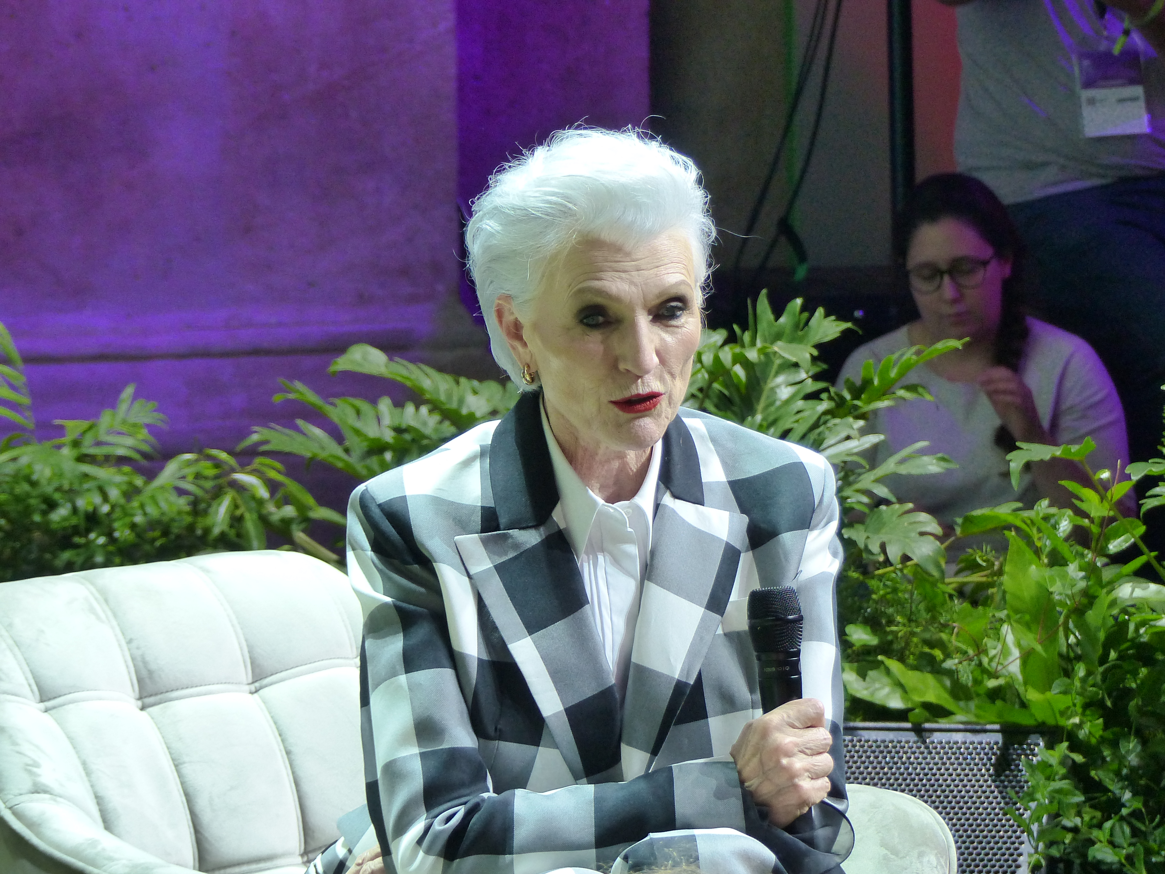 Maye Musk. Taken on the 31st of May, 2019. Brain Bar 2019, the second day - Big Hall. Corvinus University, Central Europe.